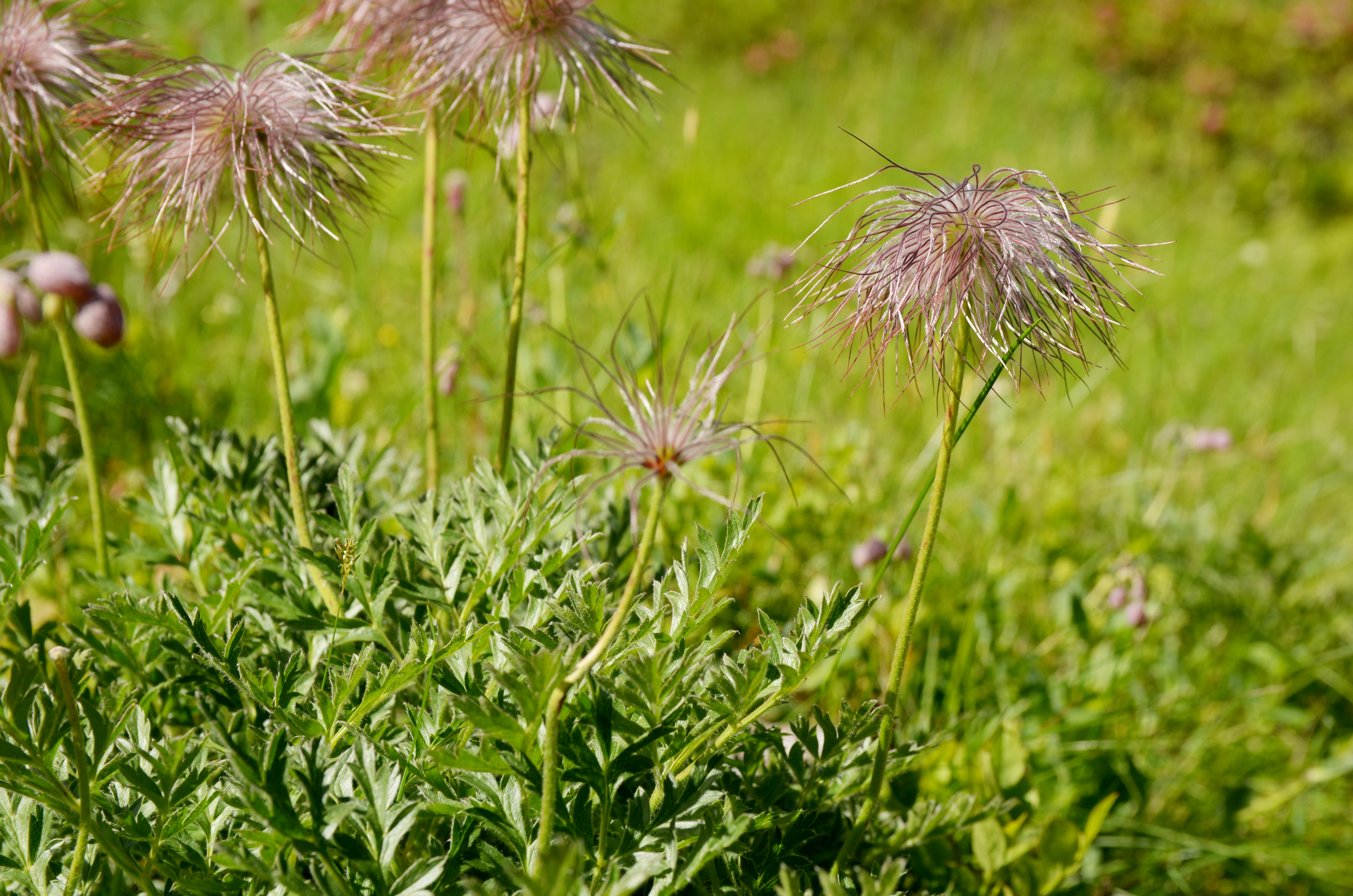 Pulsatilla alpina with ripe fruits (achenes)